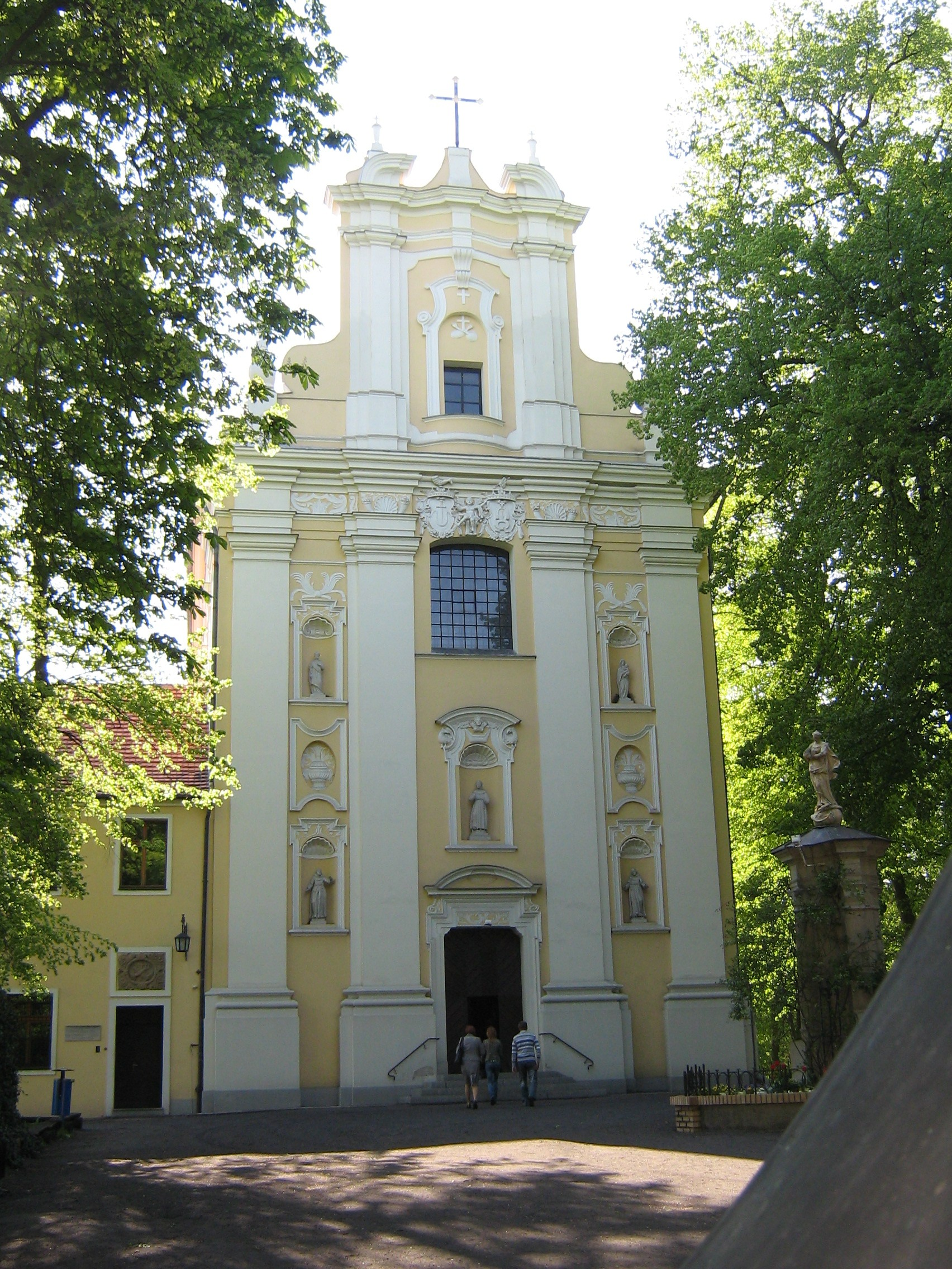 Monastery in Woźniki (Poland)